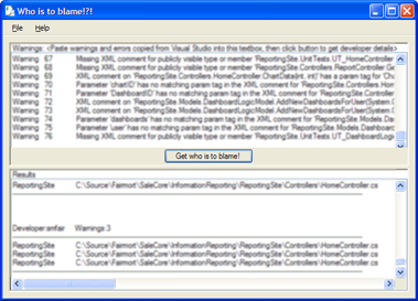 WhoIsToBlame screenshot